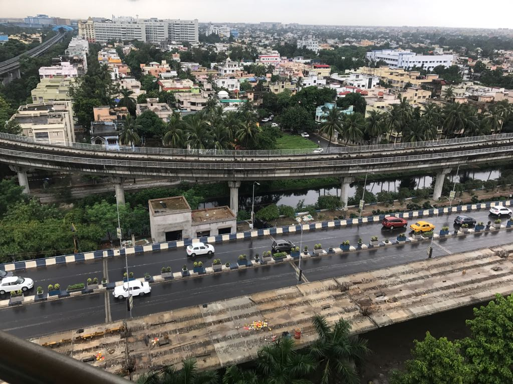 Kolkata Metro Line 2 and Line 6 under construction at Salt Lake Sector V. Date Nov 2017